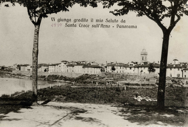 Postcard from Santa Croce sull'Arno XIX century